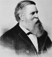 Lyman D. Norris, from History of the University of Michigan by Hinsdale, B. A. and Demmon, Isaac Newton. Ann Arbor: University of Michigan, 1906, p. 200